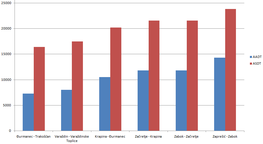 Croatian A2 motorway traffic volume by section